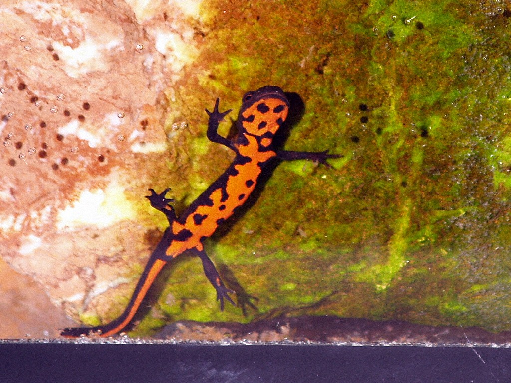 Cynops orientalis, female, adult